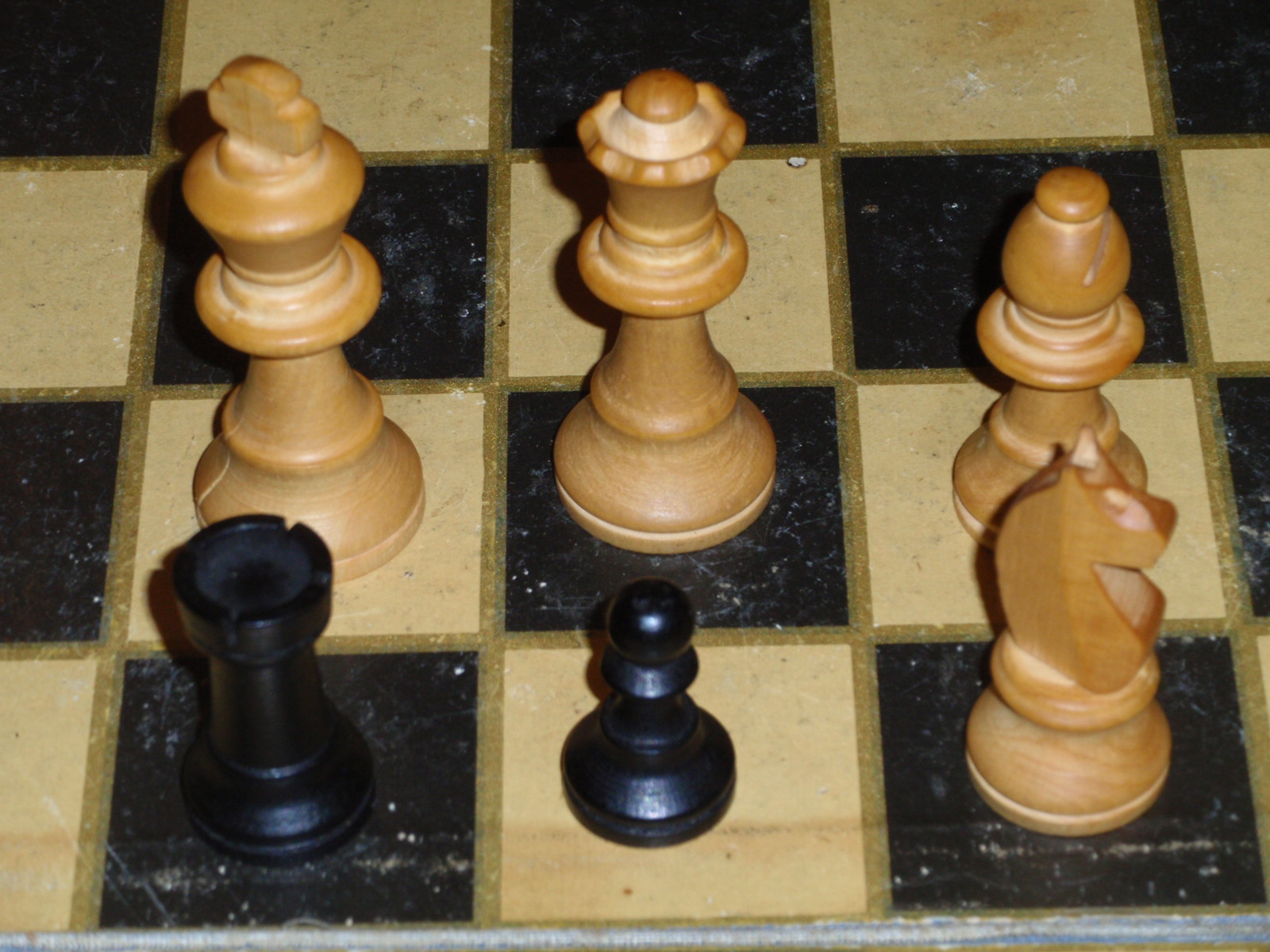 Wooden Staunton chessmen, Britain, c.1970's